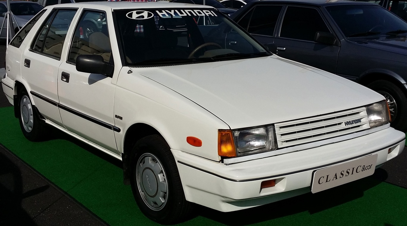 Hyundai Excel